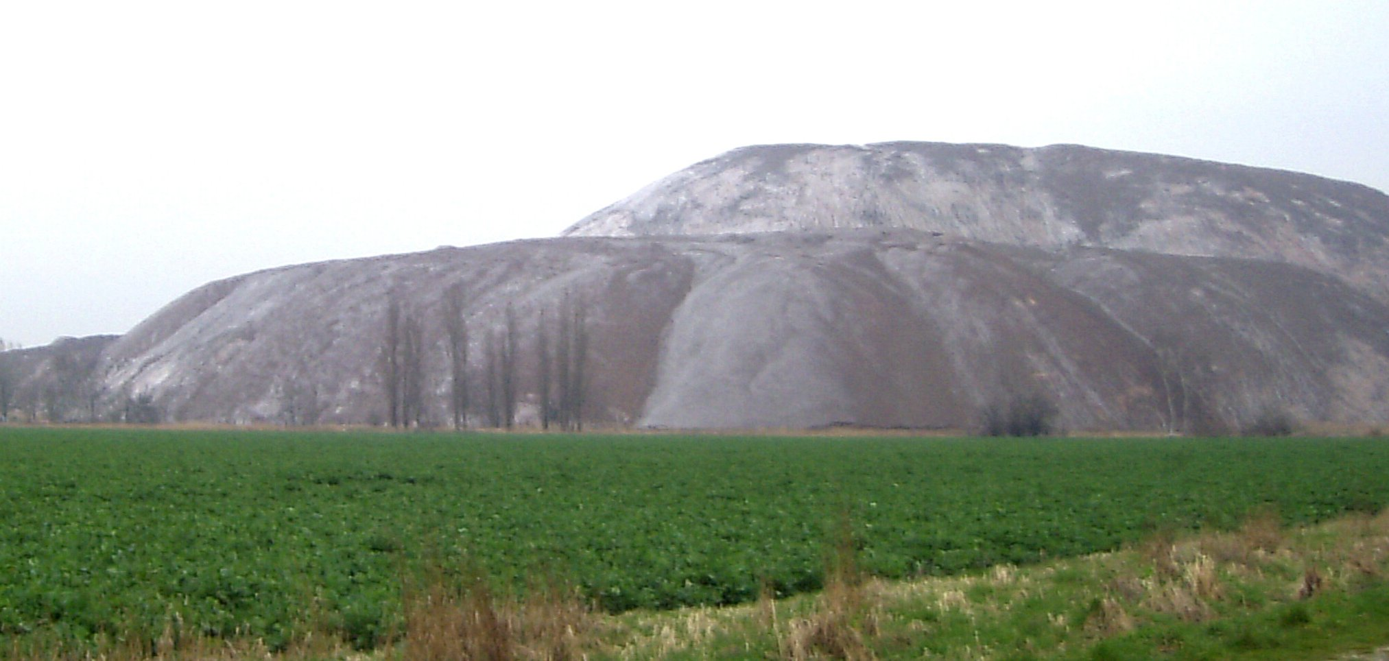 rock-salt debris mountain near Wathlingen